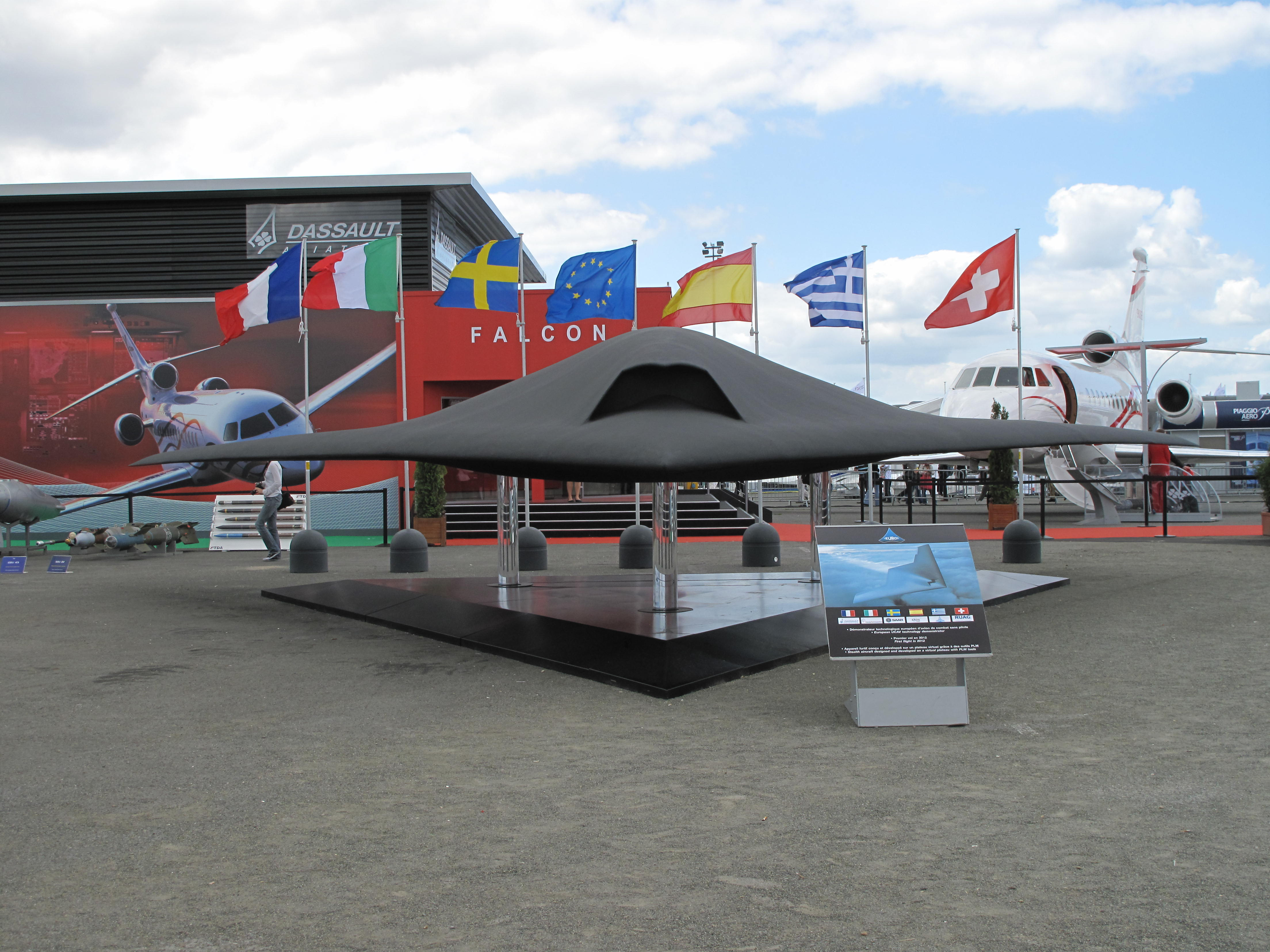 Mockup of Dassault Neuron at the Paris Air Show 2009